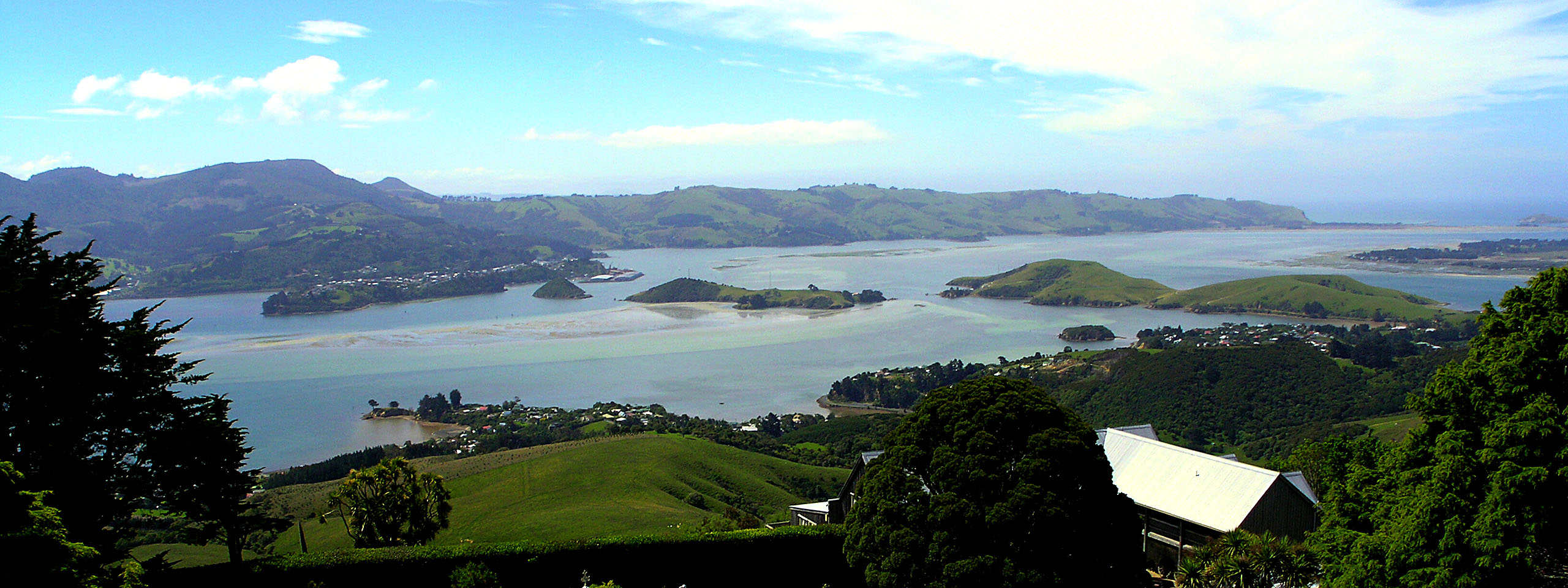 Otago Harbour (Lower Harbour), Port Chalmers, Quarantine and Goat Island, Portobello